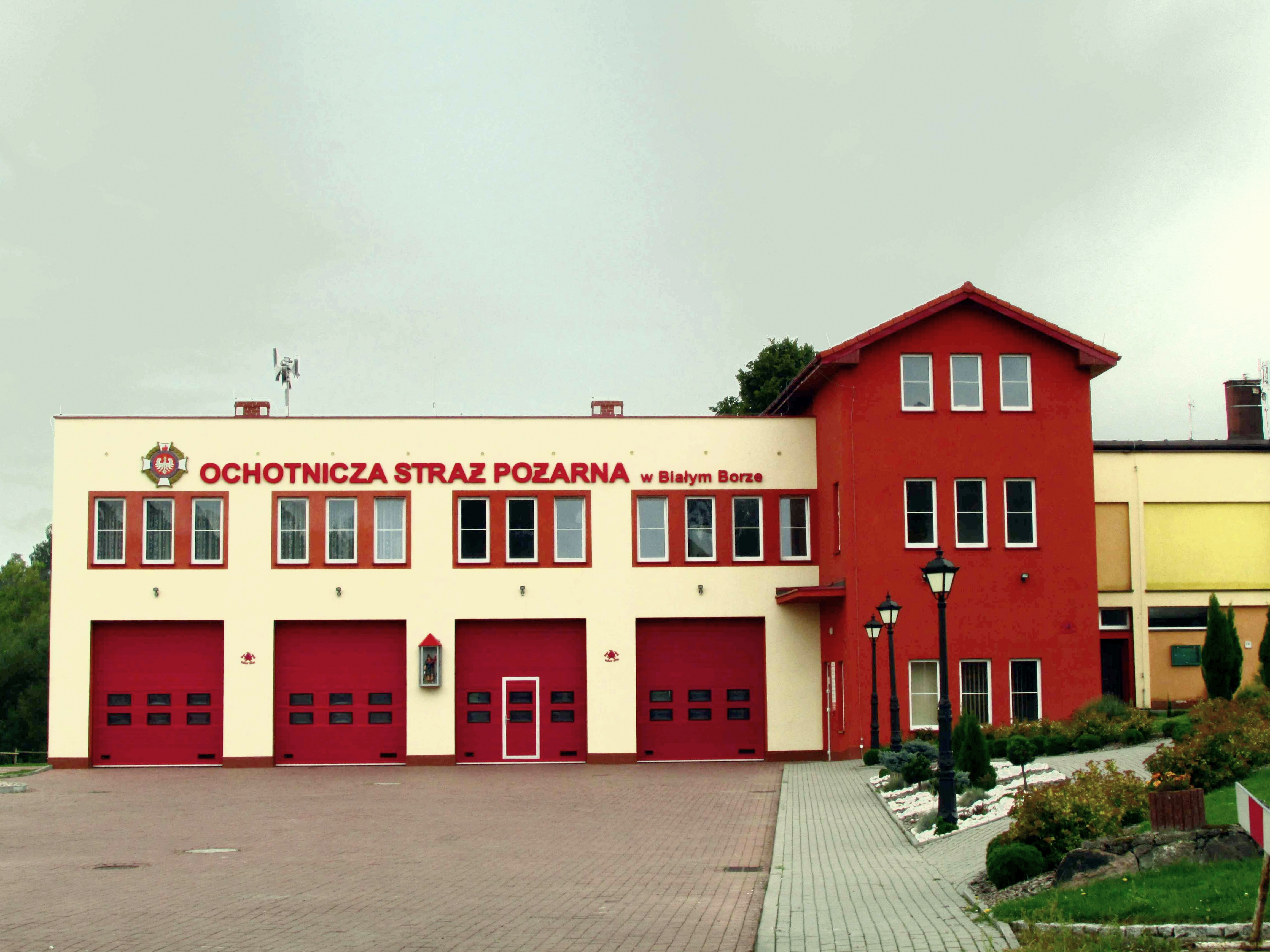 Volunteer Fire Department in Bialy Bor, Poland